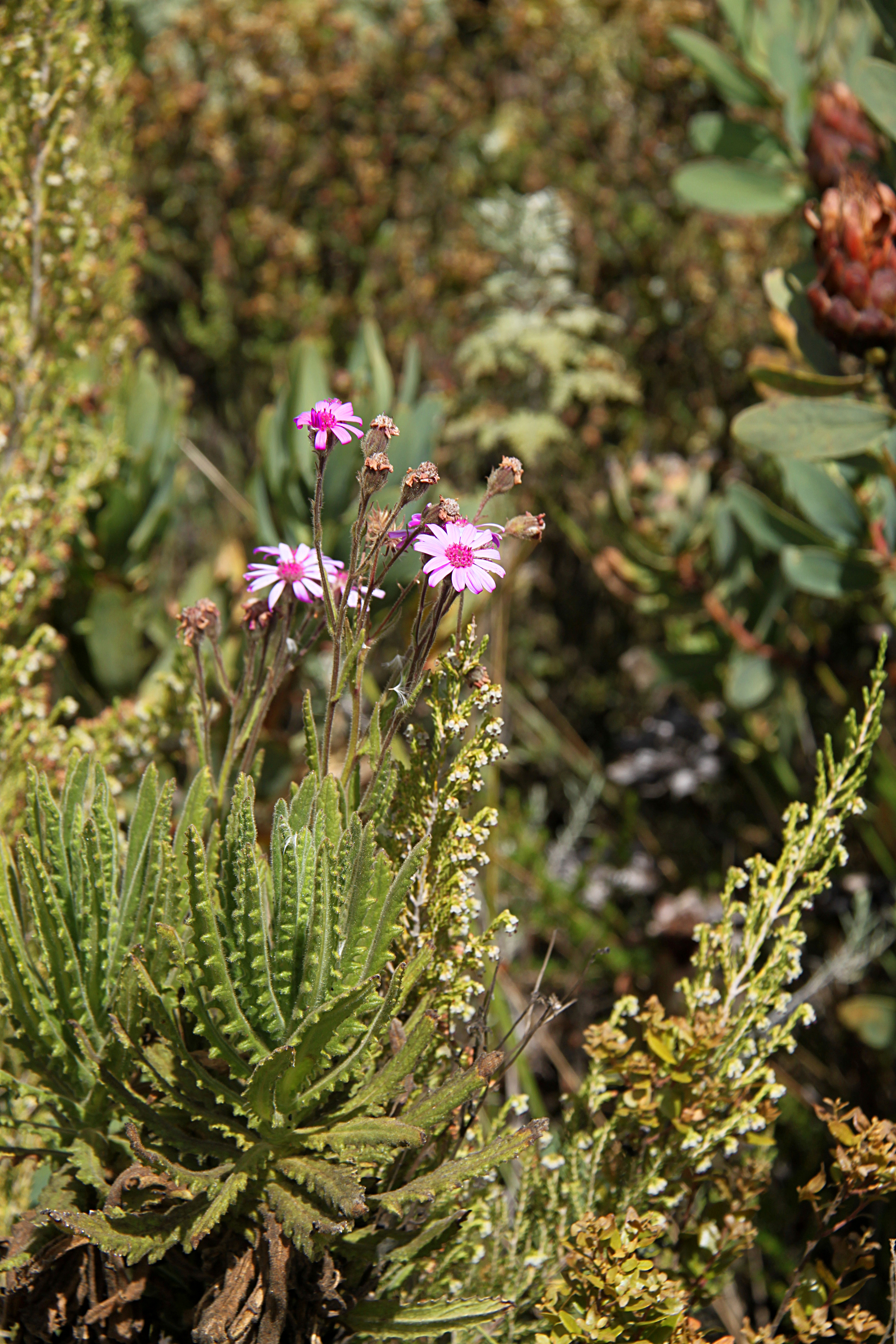 habit of the pink-flowered groundsel Senecio roseiflorus, about 80 cm high, photographed along the Chogoria route, Mount Kenya, at approximately 3100 m altitude